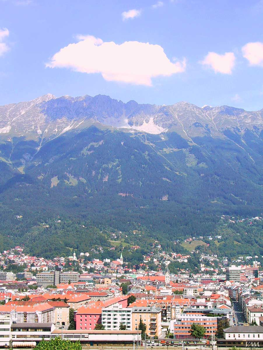 View from Brennerstrasse over the town of Innsbruck